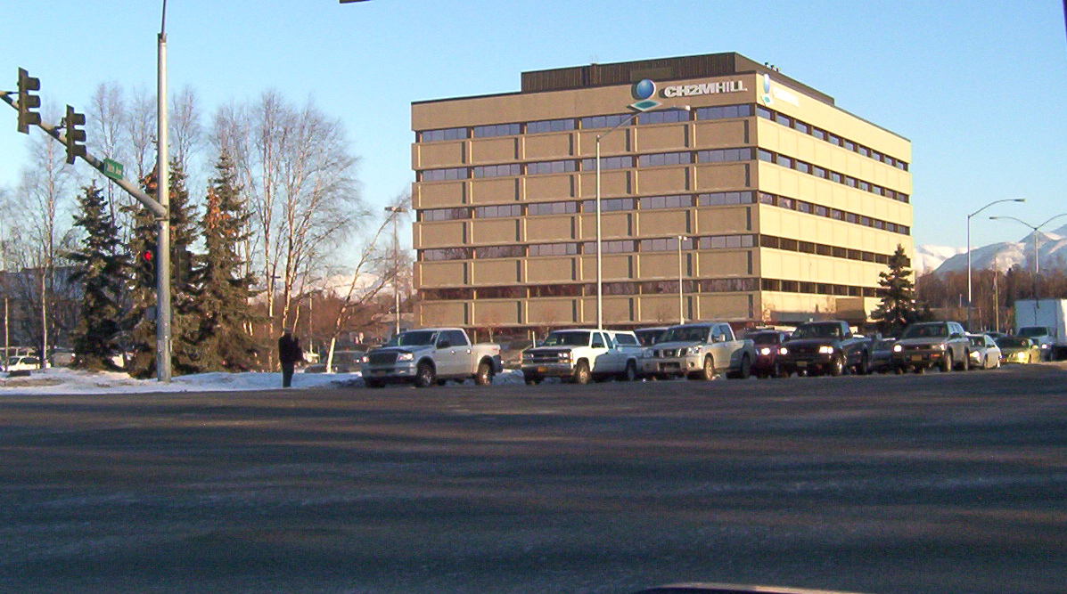 CH2MHILL Alaska headquarters, Seward Highway, Anchorage